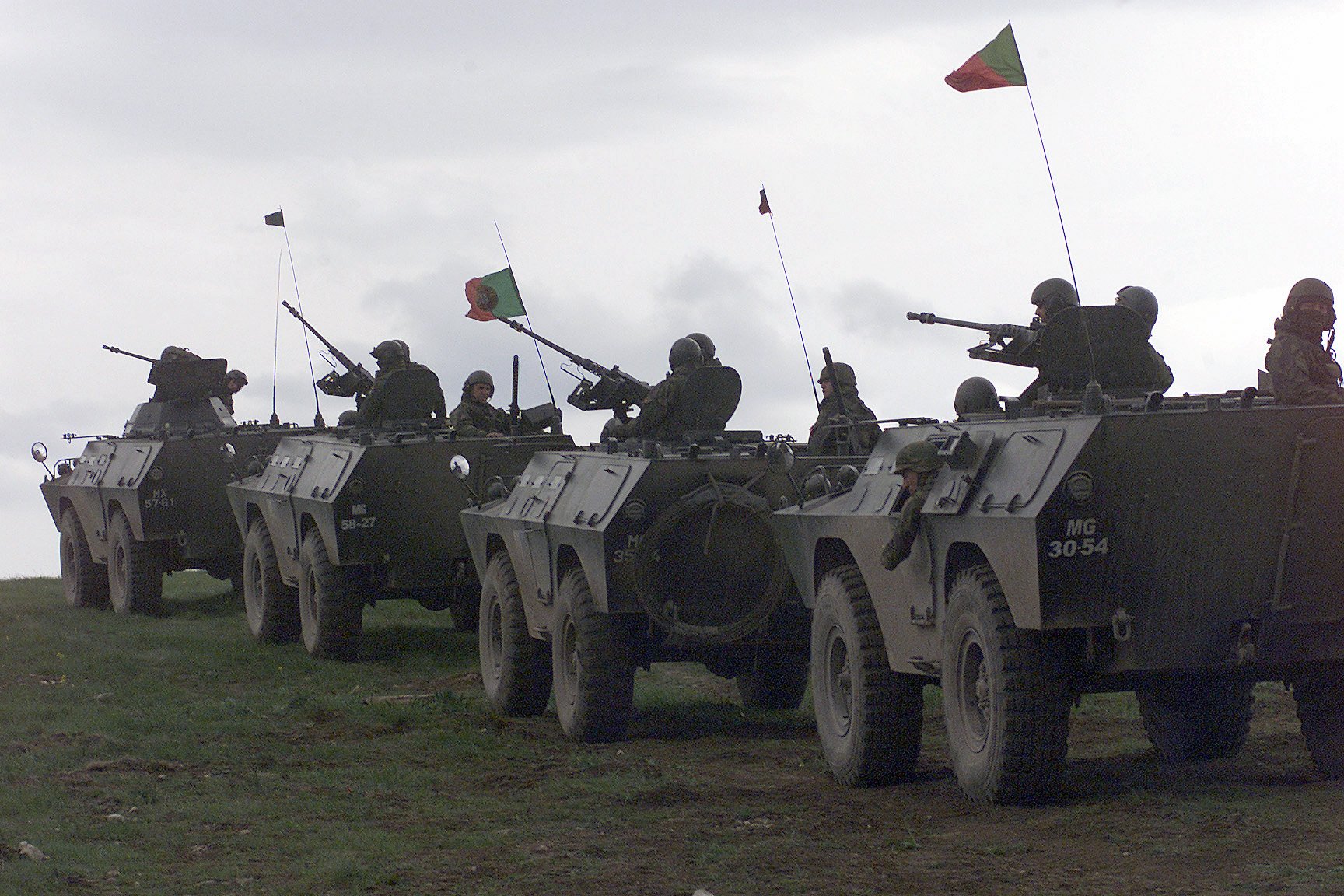 A convoy of Portuguese Army Chaimite V-200 Armored Personnel Carriers prepares to move out at the Glamoc live-fire range, while participating in Exercise IBERIAN RESOLVE, at Camp Butmir, Bosnia and Herzegovina.